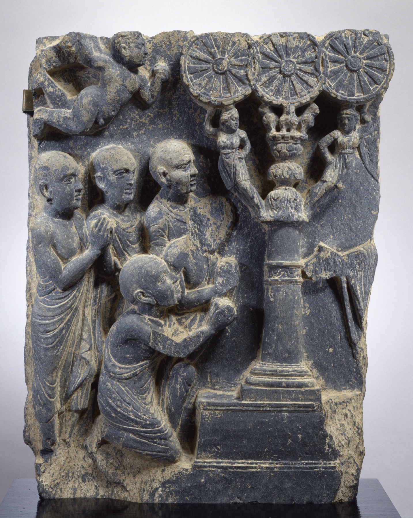 The Buddha (you can see the remains of his hand on the right side of this fragment) is evidently explaining the teachings to his five core disciples. The pillar is an instructional device. "The Four Noble Truths," the Buddha's essential teachings, constitute a "Wheel of the Law." (The first Truth is that life is inherently unsatisfying.) This wheel should be turned three times - once to show that each Truth has been heard, once to show that each has been understood, and once to show that each has been acted upon.